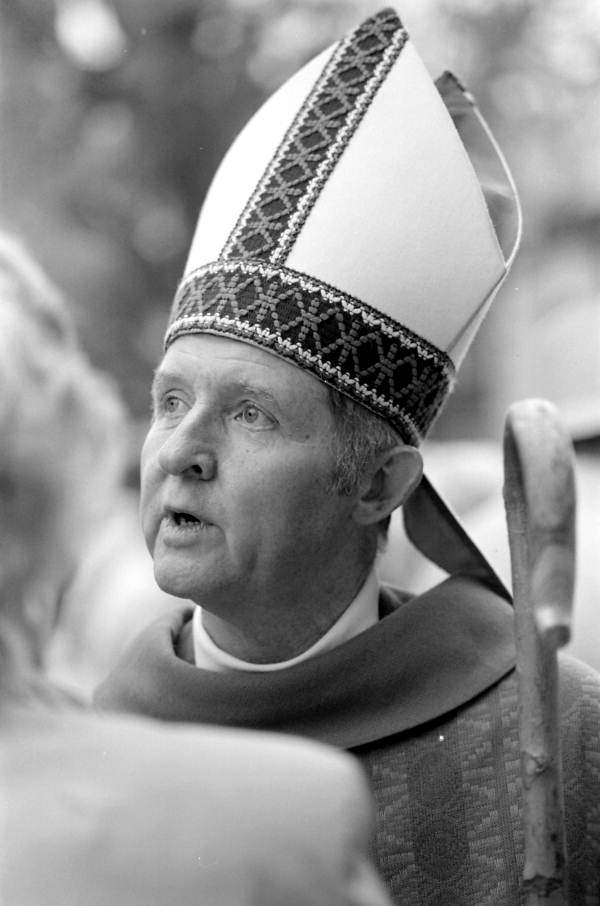 Local call number: FP83171B Title: Bishop John Joseph Snyder at the St. Augustine Easter Festival Date: March 1983 Physical descrip: 1 photonegative - b&w - 35 mm. Series Title: Folklife Collection Repository: State Library and Archives of Florida, 500 S. Bronough St., Tallahassee, FL 32399-0250 USA. Contact: 850.245.6700. Persistent URL